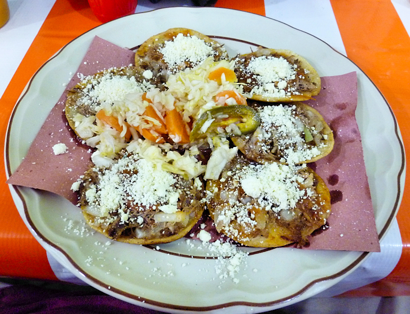 Garnachas, a regional food from the Isthmus of Tehuantepec in Oaxaca, Mexico.